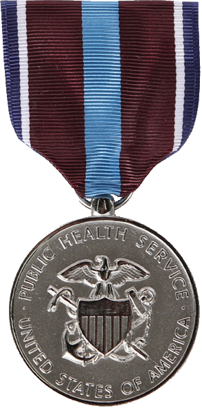 US Public Health Service Outstanding Service Medal